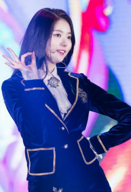 Lim Na-young performing during the Pyeongchang Winter Event on March 3, 2018.